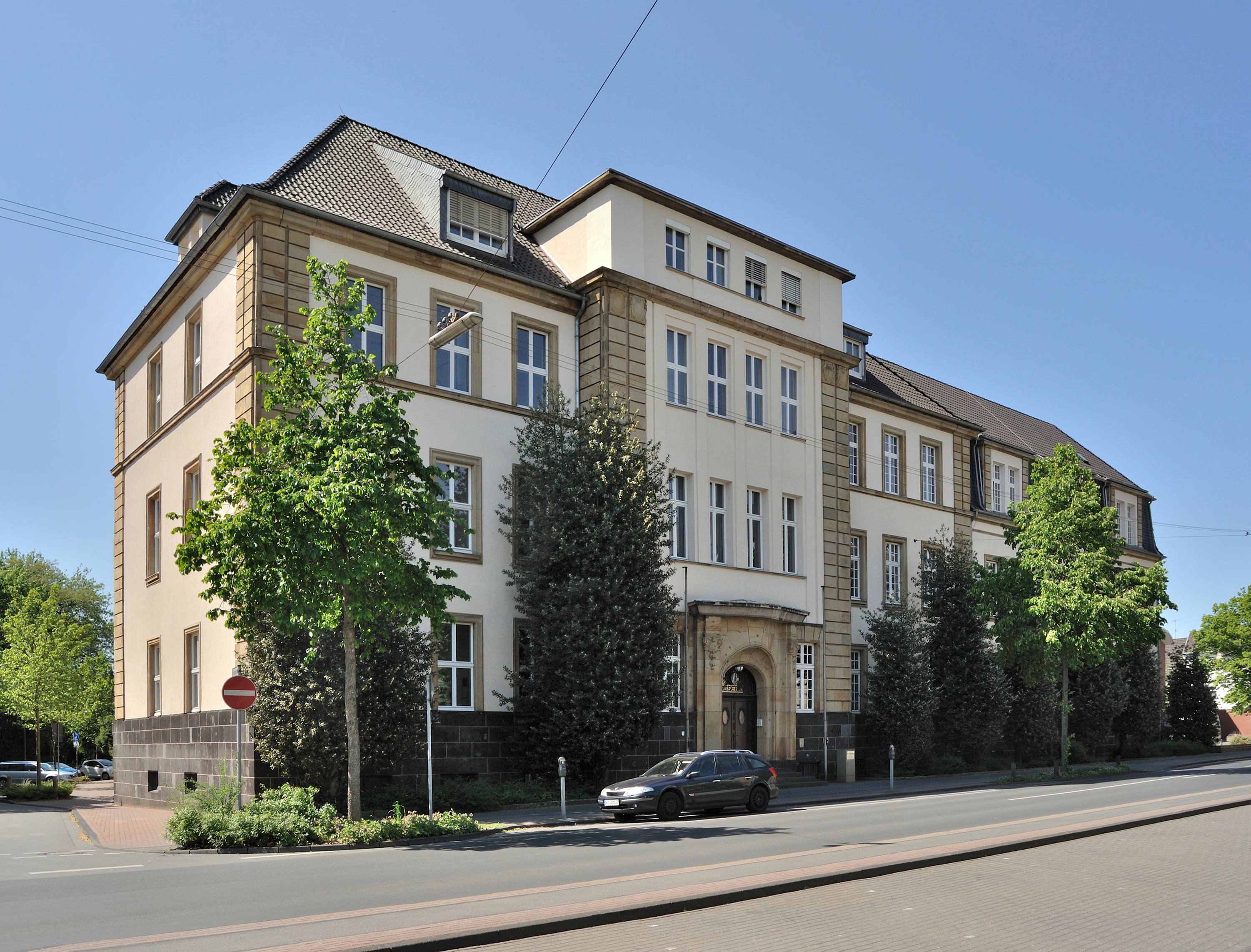 Dinslaken (North Rhine-Westphalia, Germany) – local court This is a photograph of an architectural monument. This photograph was taken with a Nikon D3000